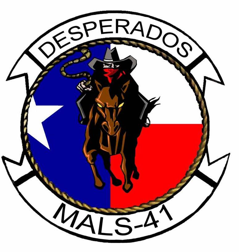 New logo for MALS-41